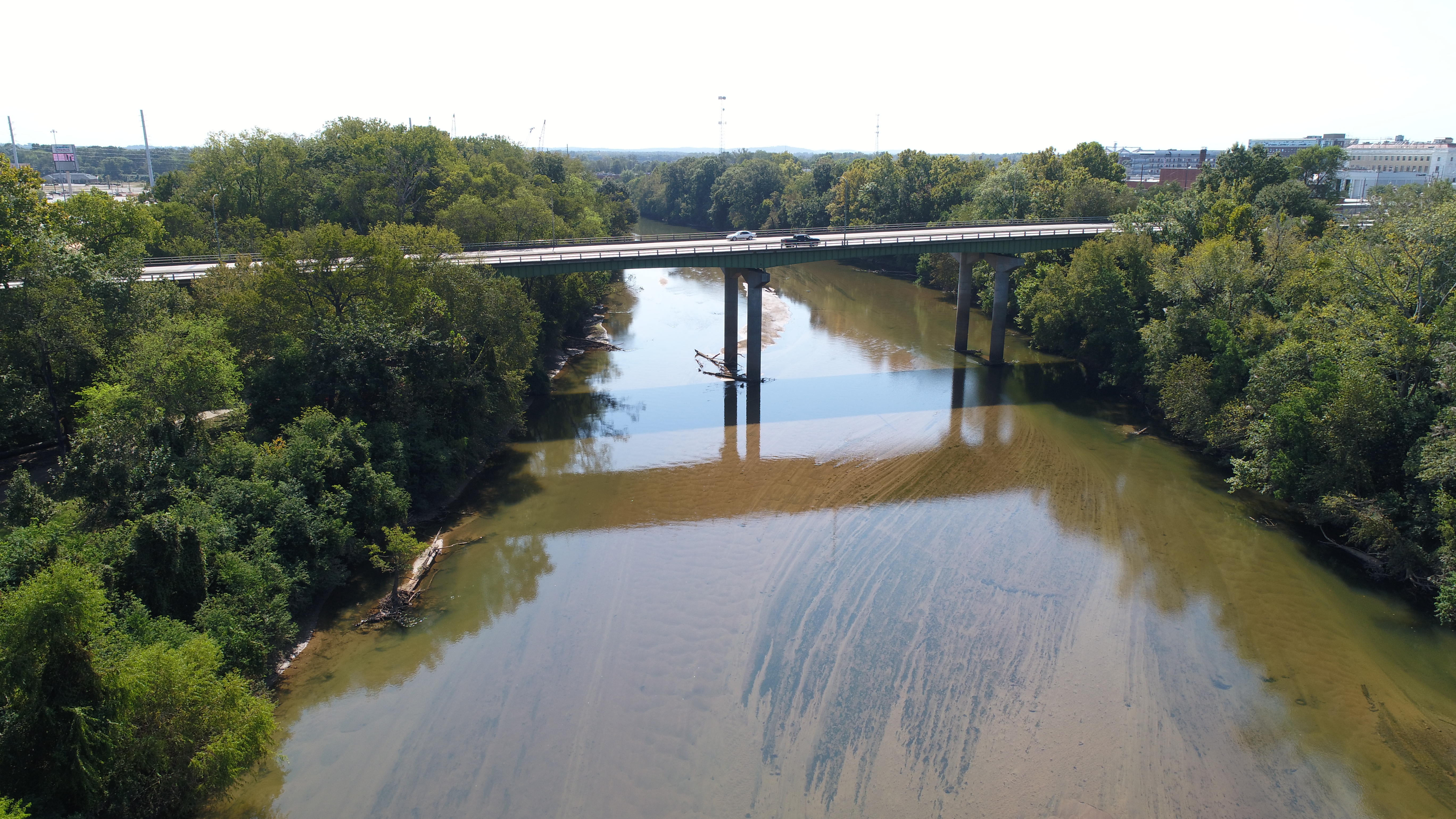 Drone footage shot on 9/22/18 Looking southeast toward Second St.